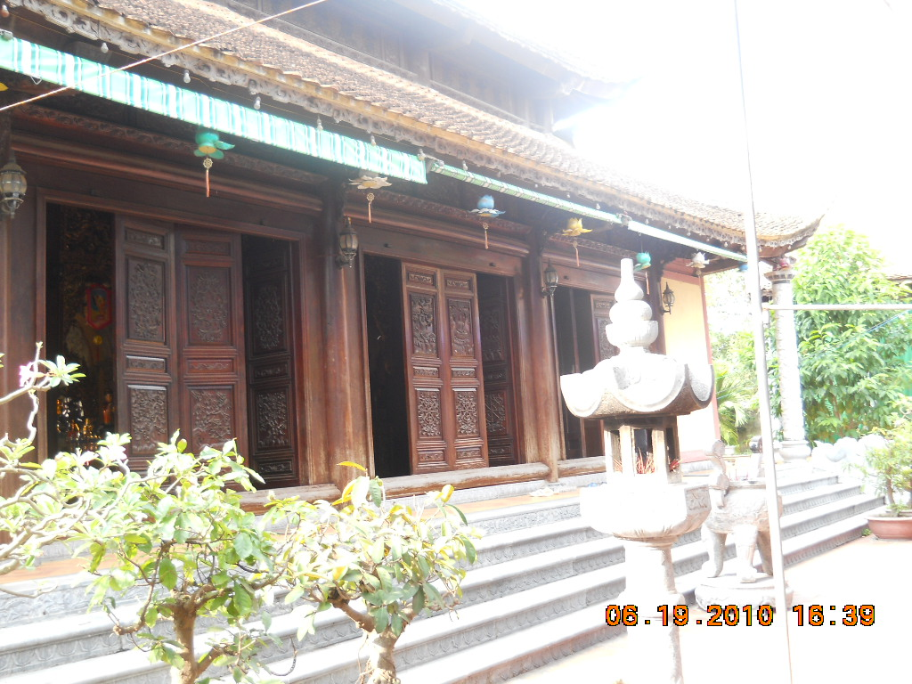 Gian chính chùa Sùng Nghiêm, Hậu Lộc